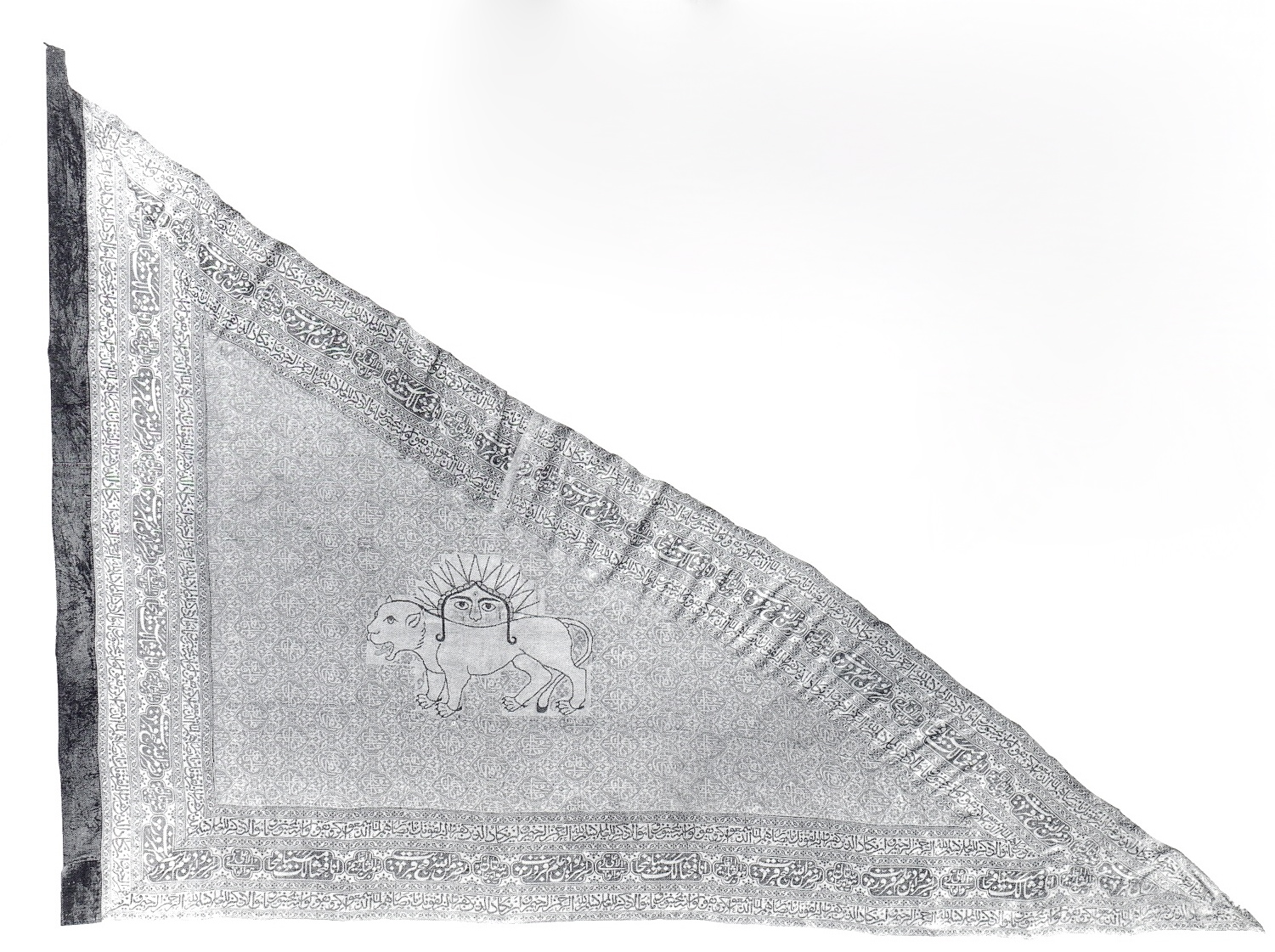 Triangular silk flag of Iran, Qajar Dynasty, 3.6* 2.03, mid-nineteenth century, The edging bands woven separately, Quranic verses and the ground pious invocations can be found on edges